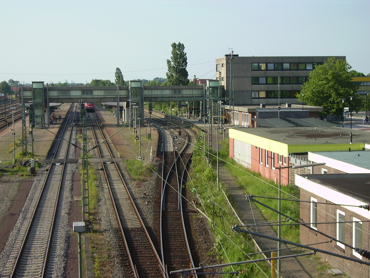 Hauptbahnhof Emden (central railway station of Emden in Germany)